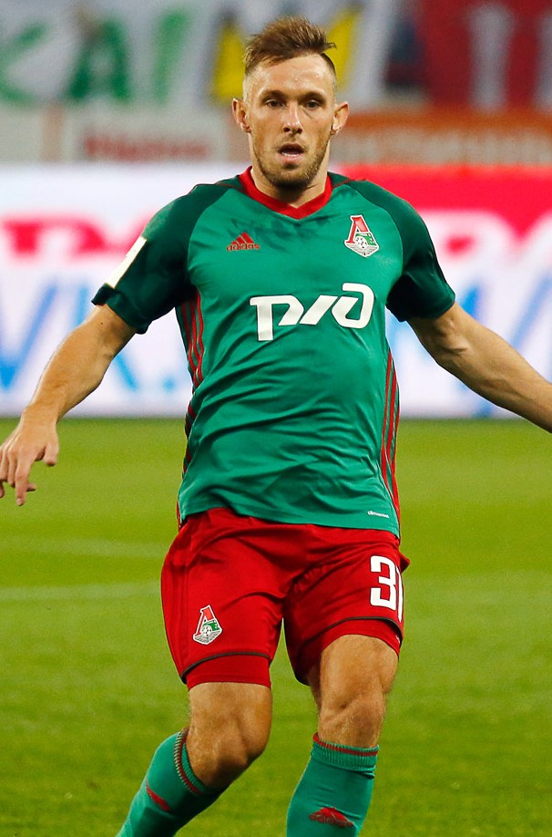 Maciej Rybus